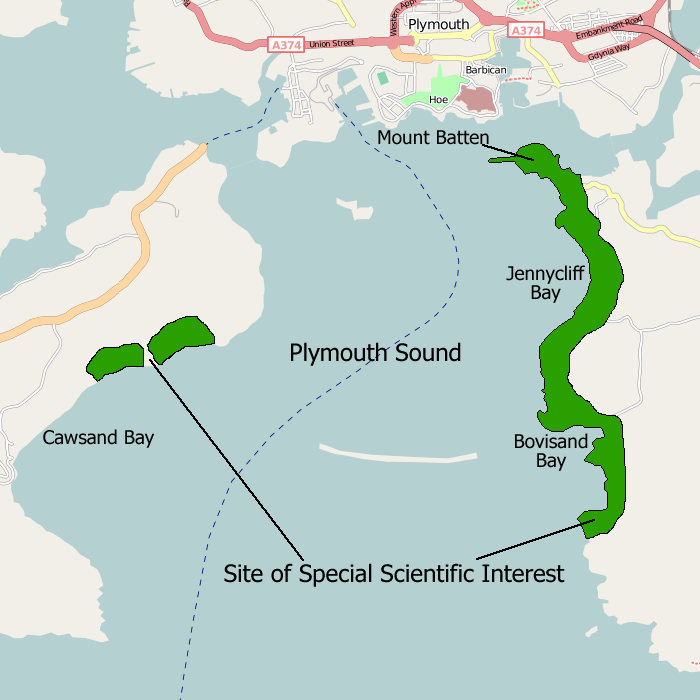 A map of Plymouth Sound showing the area of the Plymouth Sound, Shores and Cliffs.